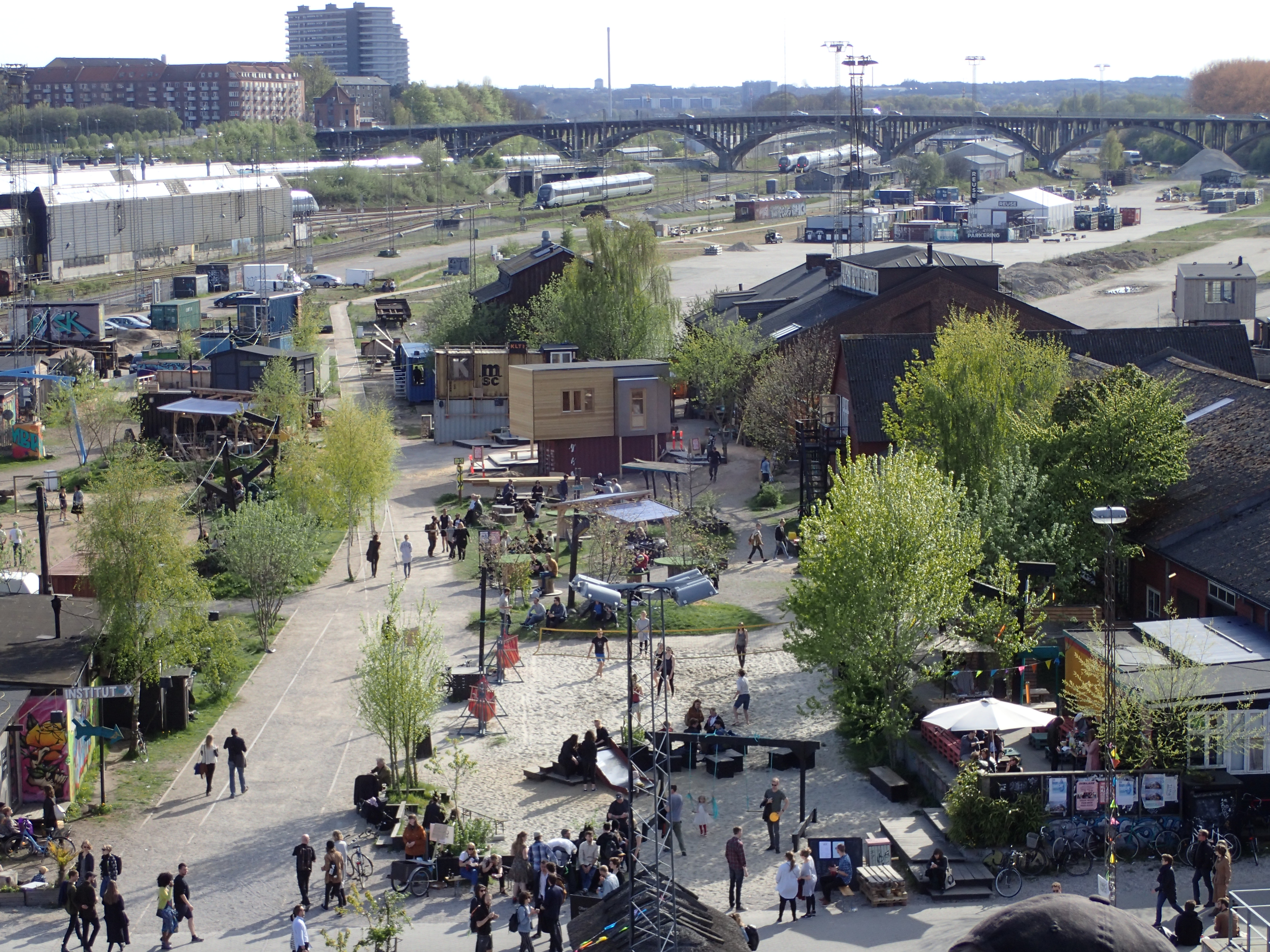 Institut for (X)